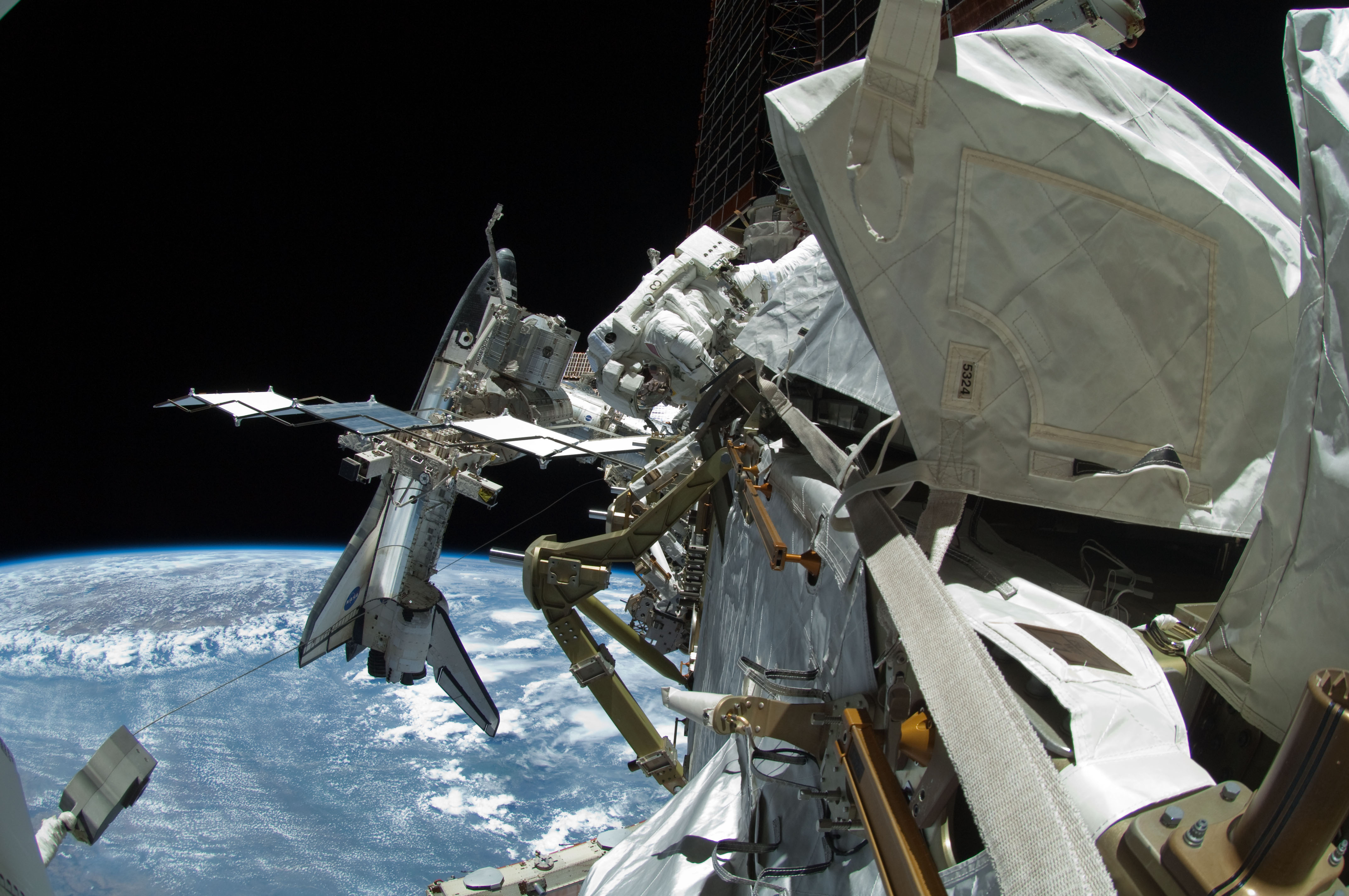 A fish-eye lens attached to an electronic still camera was used to capture this image of NASA astronaut Michael Fincke (top center) during the mission's fourth session of extravehicular activity (EVA) as construction and maintenance continue on the International Space Station. During the seven-hour, 24-minute spacewalk, Fincke and astronaut Greg Chamitoff (out of frame), both STS-134 mission specialists, completed the primary objectives for the spacewalk, including stowing the 50-foot-long boom and adding a power and data grapple fixture to make it the Enhanced International Space Station Boom Assembly, available to extend the reach of the space station's robotic arm. The docked space shuttle Endeavour is visible at left. The blackness of space and Earth's horizon provide the backdrop for the scene.